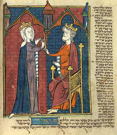 Esther before Ahasuerus. The king holds out his sceptre to Esther. Illustration from the North French Hebrew Miscellany manuscript.